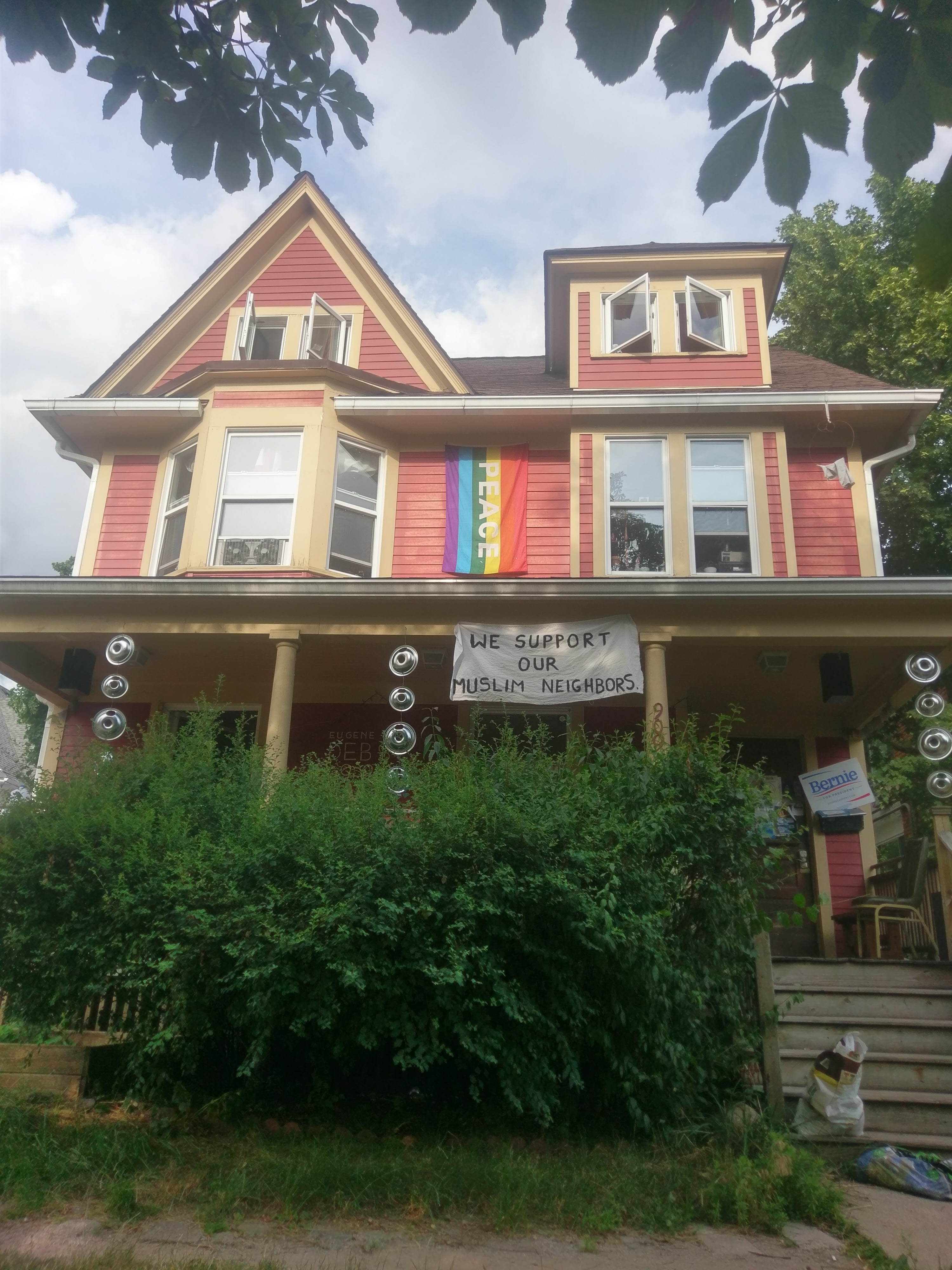 A photo of the front of Eugene V. Debs Cooperative, taken July 2016.